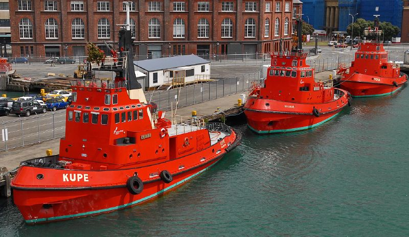 Wellington's tugs in 2007: Kupe, Ngahue and Toia Lambton Harbour, Wellington, New Zealand